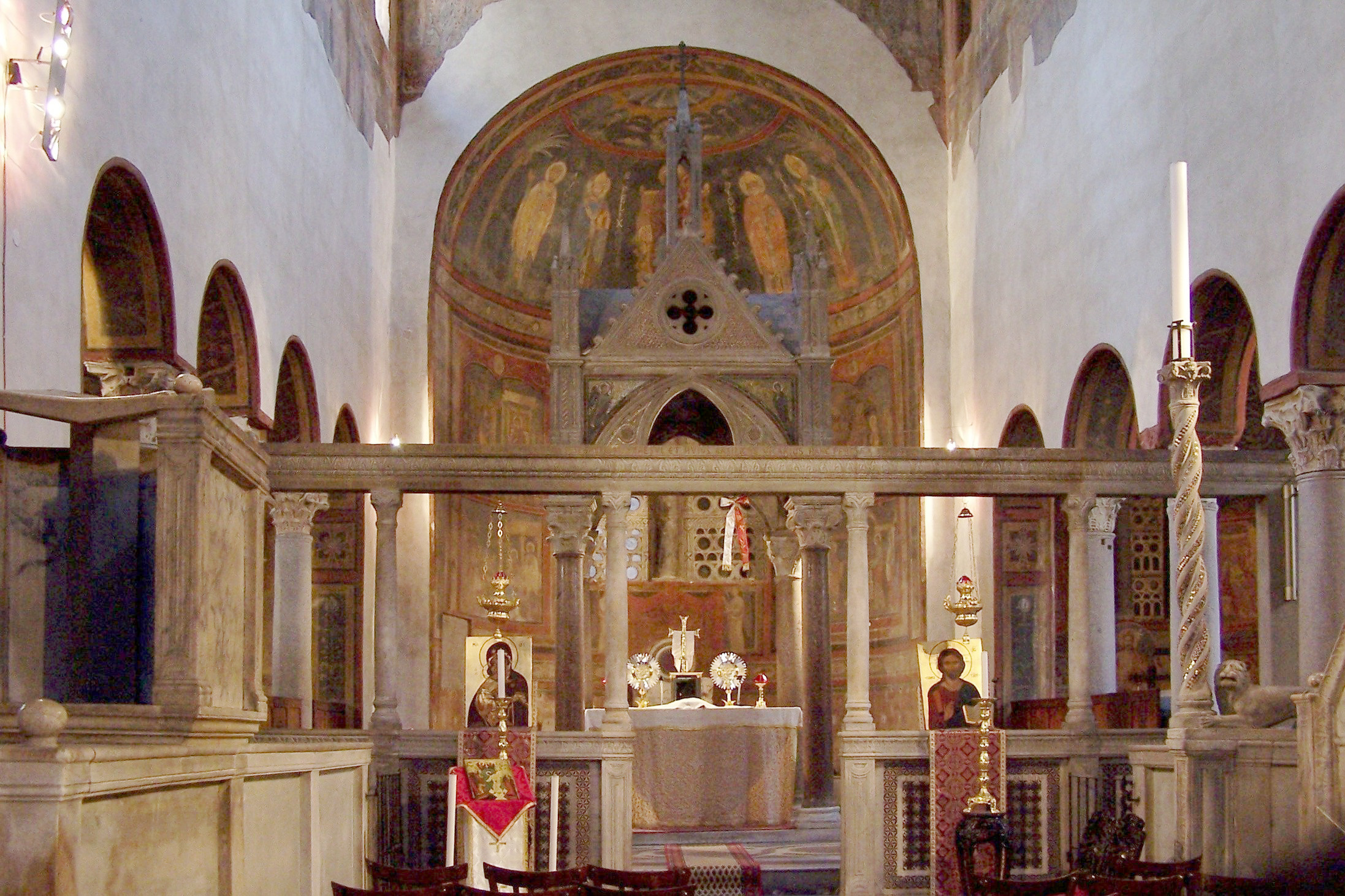 Rom, Santa Maria in Cosmedin, innen